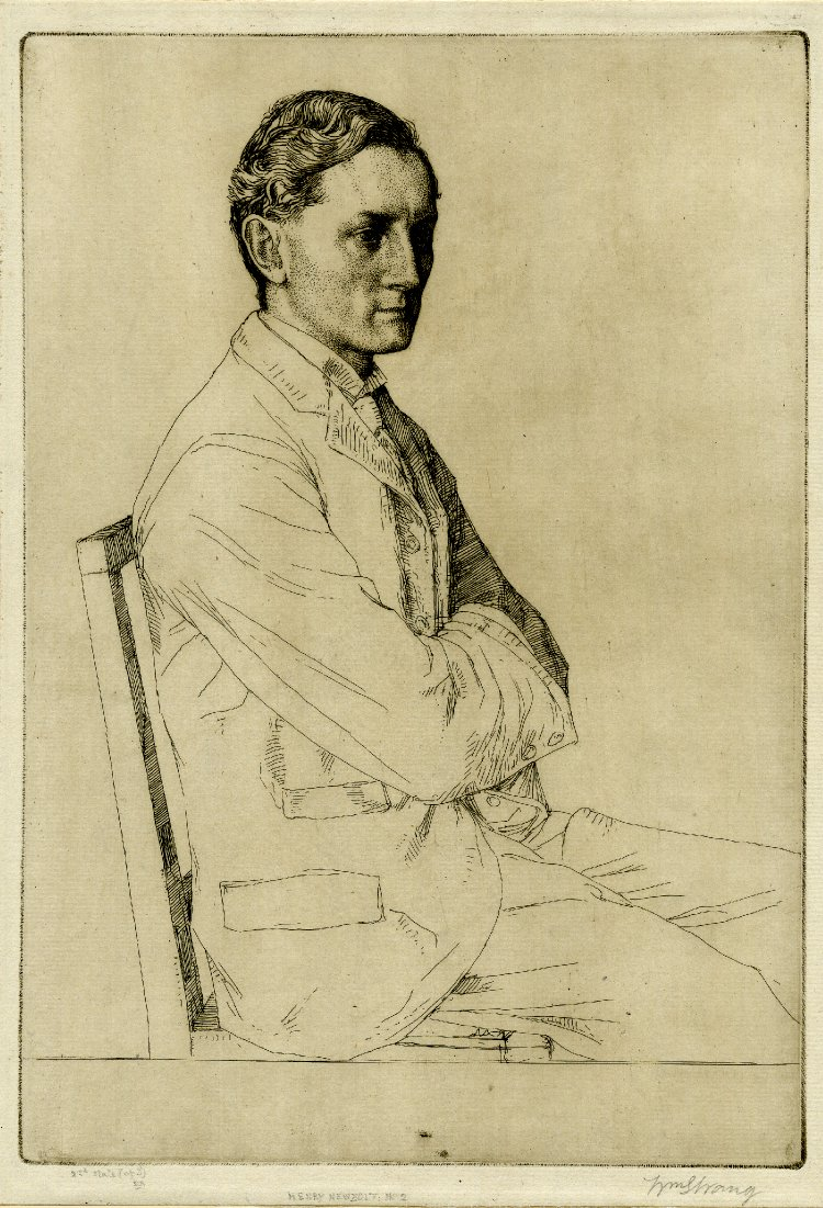 "Henry Newbolt, No. 2," etching, by the Scottish artist William Strang. 250 mm x 174 mm. Courtesy of the British Museum, London.